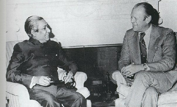 Bangladesh PM Sheikh Mujib and US President Gerald Ford meeting in the Oval Office in 1974